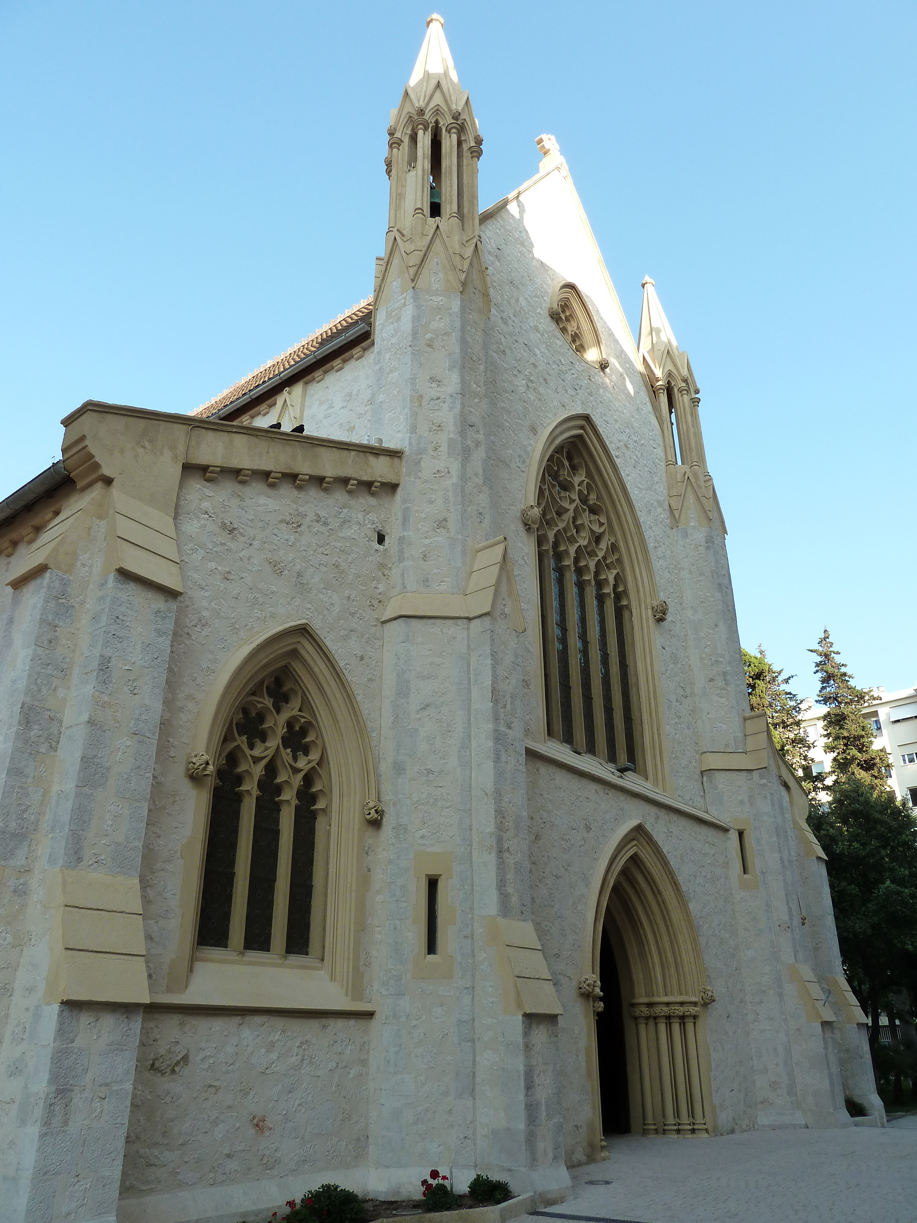 Anglican church in Nice